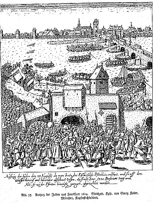 Expulsion of the Jews from Frankfurt on August 23, 1614, after riots in the "Jews Street" led by Vincent Fettmilch. According to the text, "1380 persons old and young were counted at the exit of the gate" and herded onto ships on the river Main. Jews were connected in business to the city's wealthy merchants, while Fettmilch led the small craftsmen and traders opposed to the Jewish presence in Frankfurt.